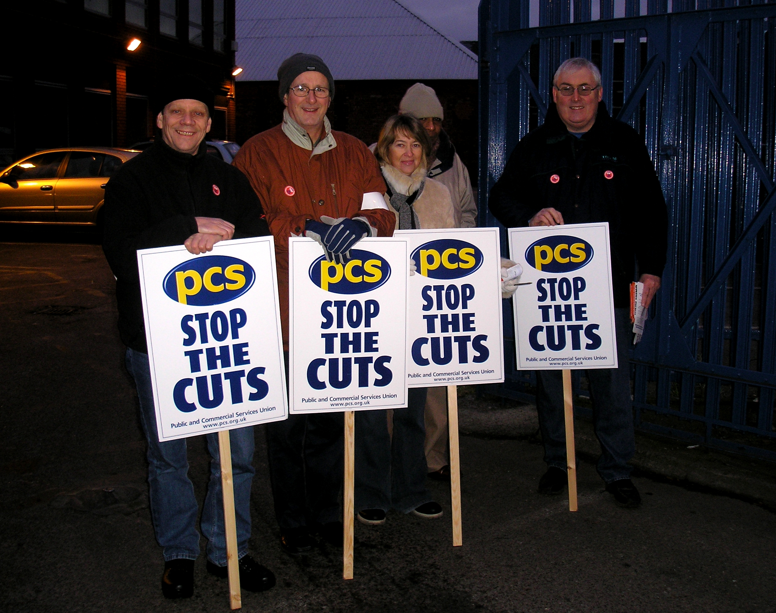 Members of the Public and Commercial Services Union on stike. Picture taken by JK the Unwise in 2006.